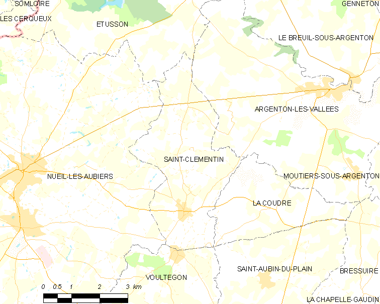 Map of French municipality Saint-Clémentin